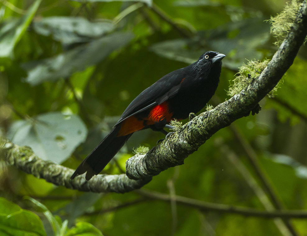 Red-bellied Grackle - Medellin - Colombia_S4E5638